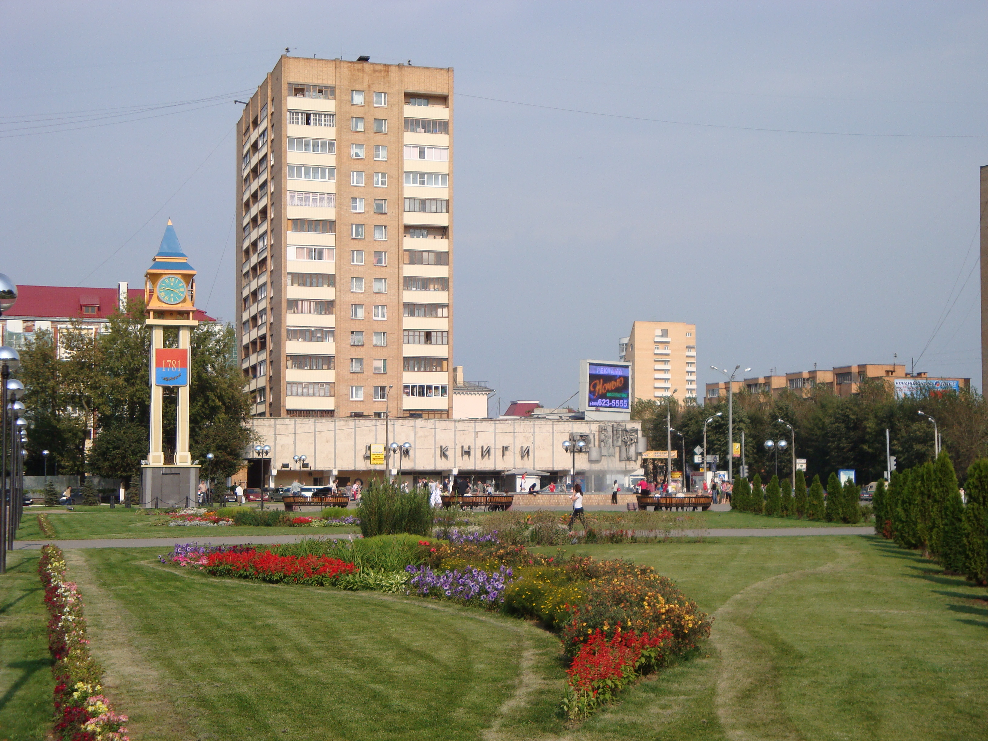 City Center of Podolsk (Moscow Oblast)